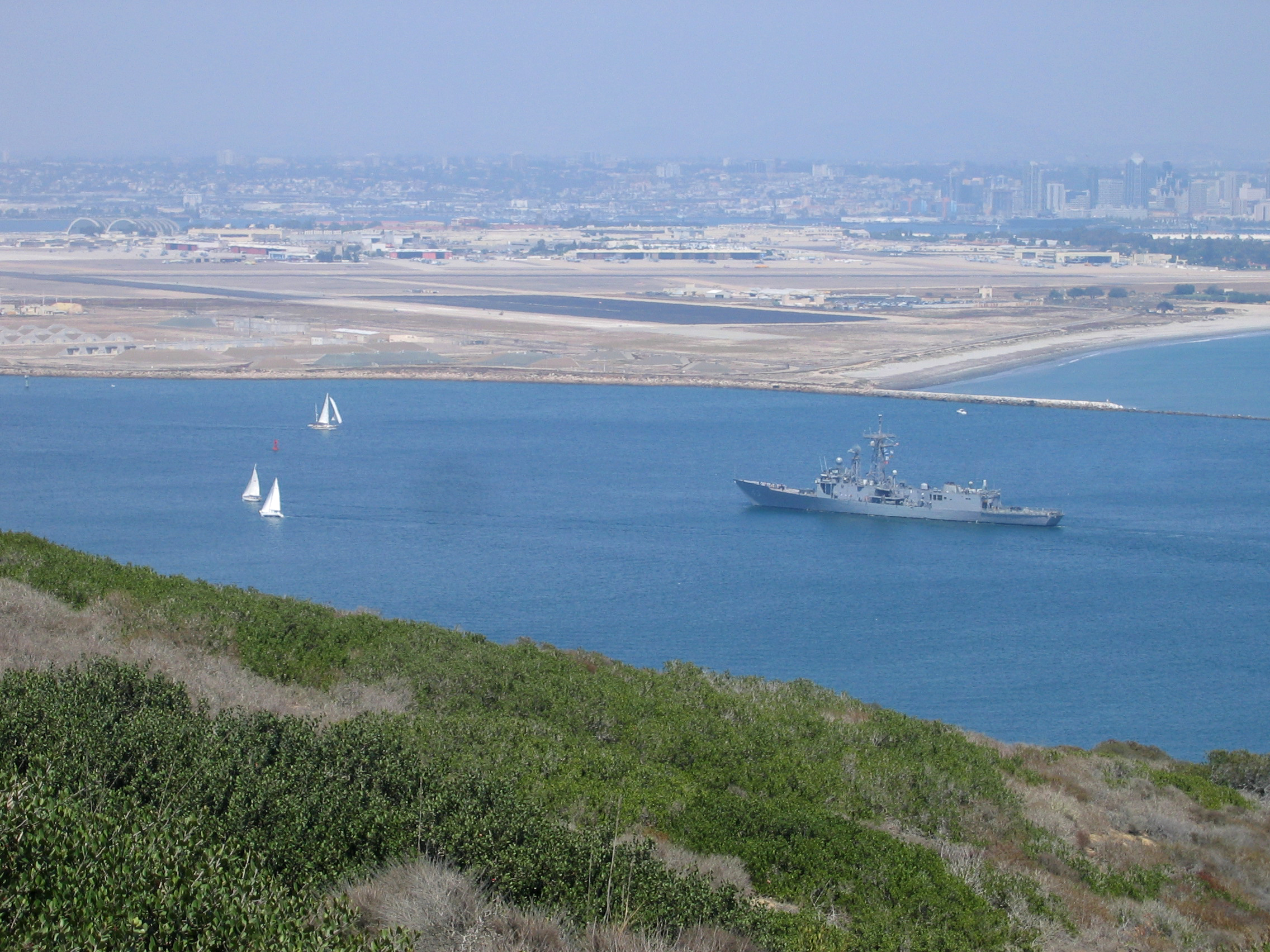 San Diego and Coronado (Naval Air Station, North Island), as viewed from Cabrillo National Monument.